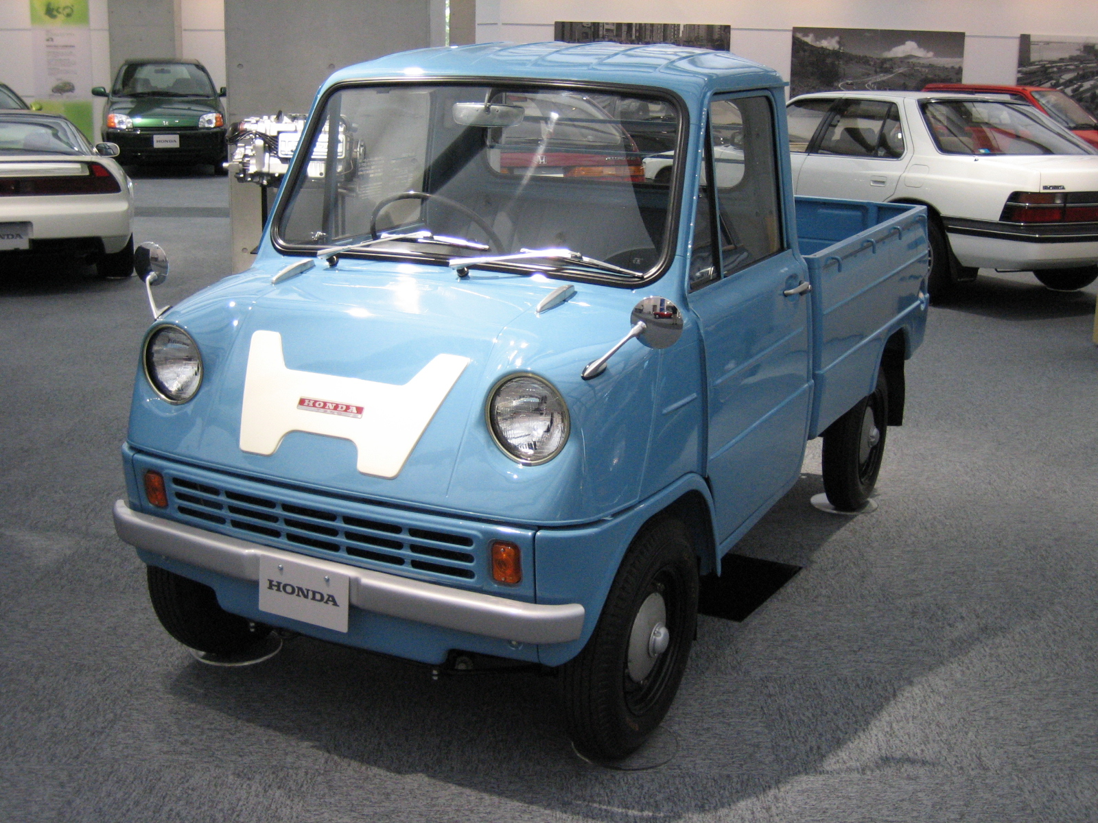 I photoed Honda T360 in the Honda collection hall.